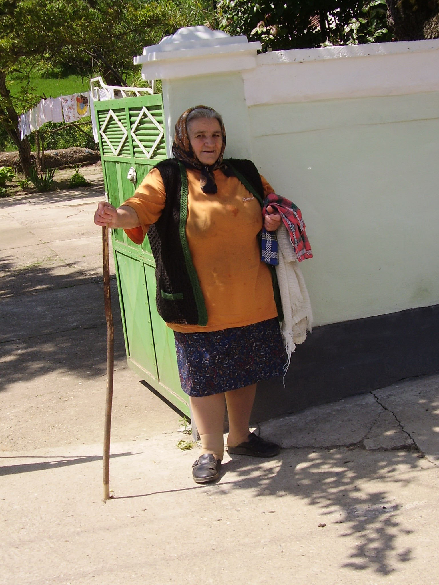 Women in Vrdnik